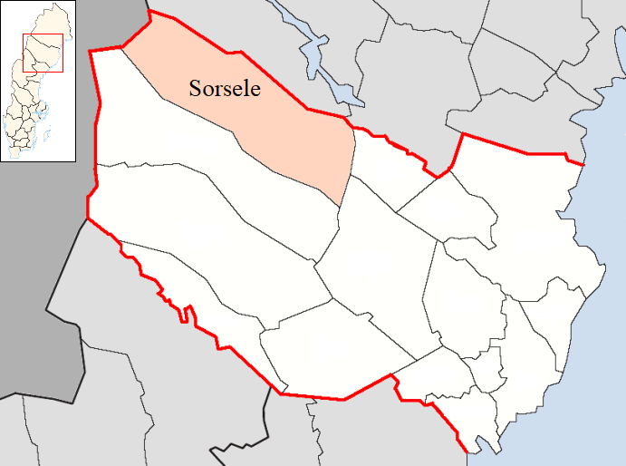 Sorsele Municipality in Västerbotten County Designed by me. Mere outlines are a PD source from